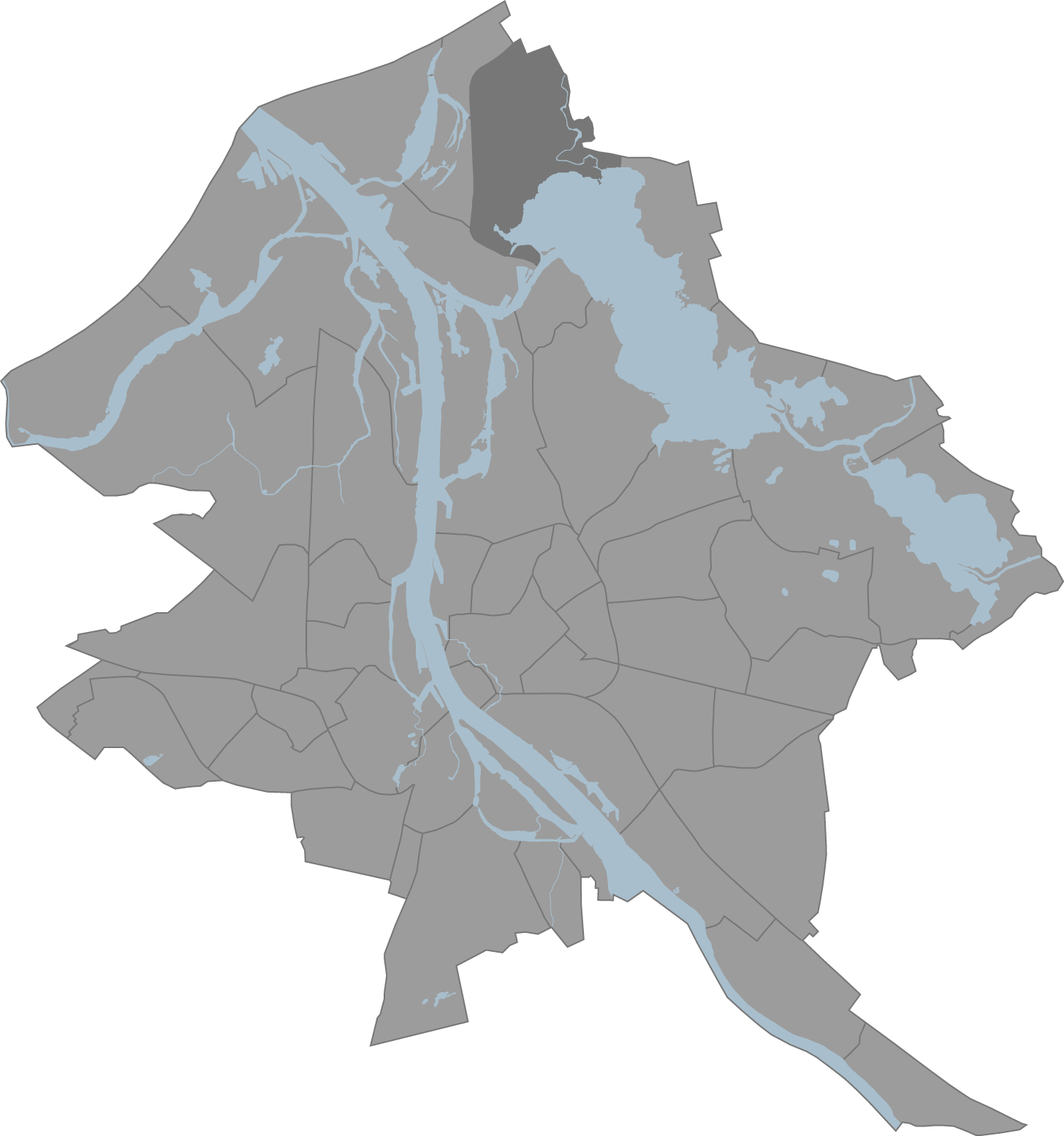 A map of Riga, Latvia with the eponymous commune highlighted